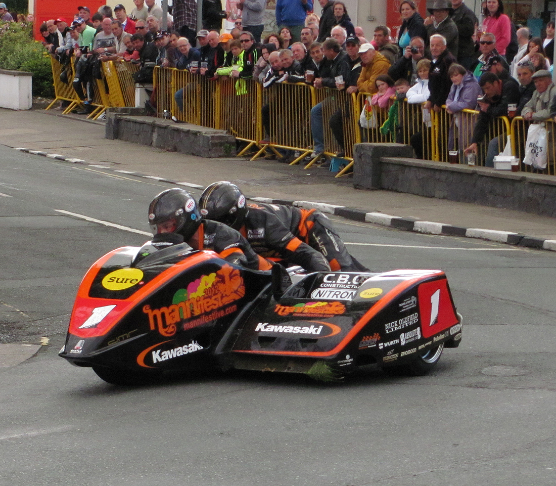 Description : Isle of Man TT Races Date : 6th June 2012 Source : Agljones at en.wikipedia Permission See below